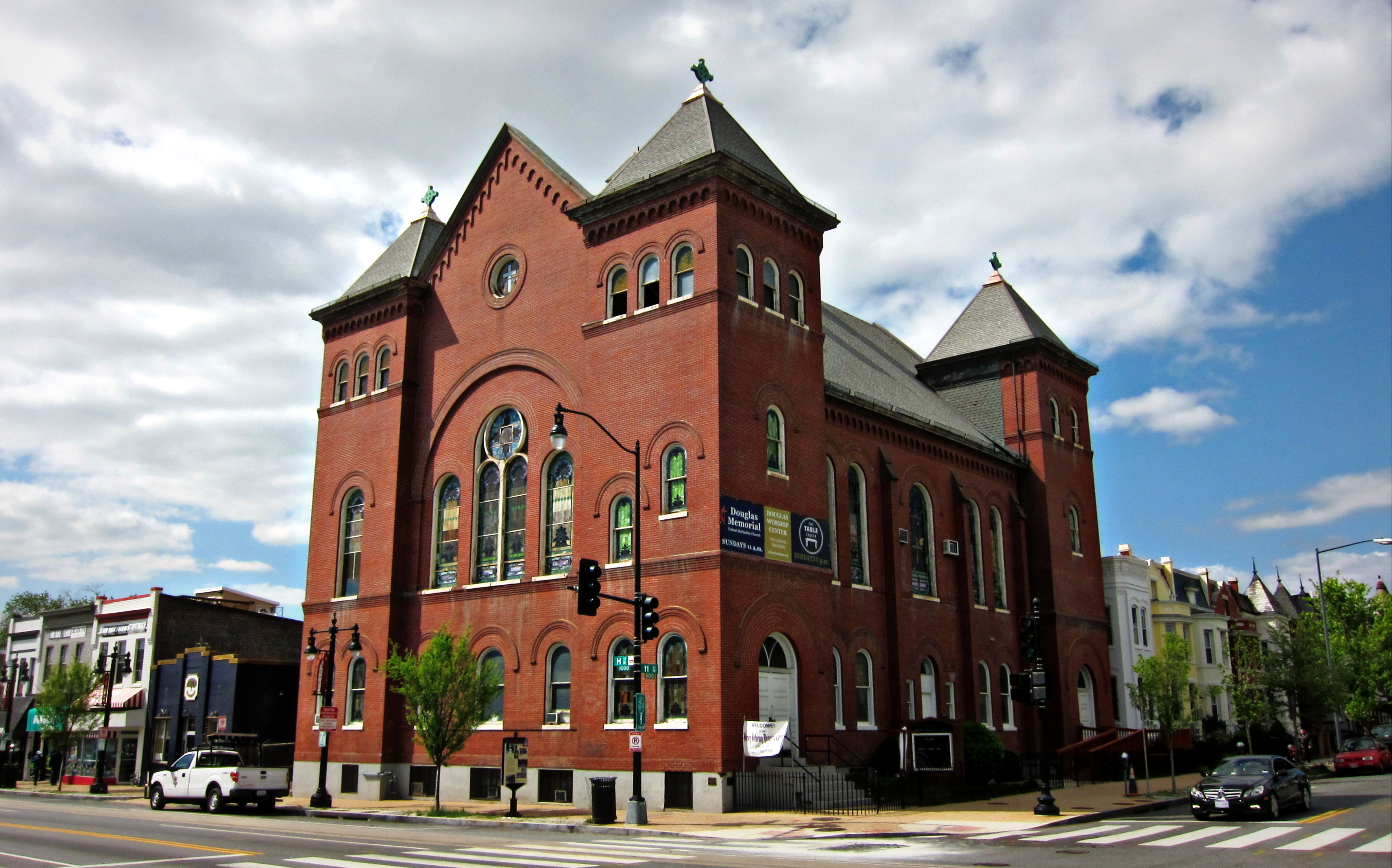 Douglas Memorial United Methodist Church located at 800 11th Street NE in the Near Northeast neighborhood of Washington, D.C. Built in 1898 for $18,000, the Romanesque Revival church was constructed by J. C. Yost, following the designs of architect Joseph C. Johnson.